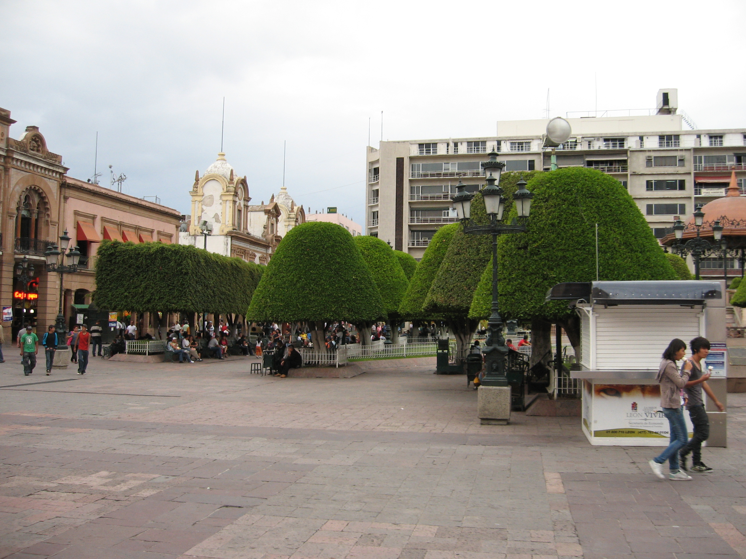 León Guanajuato